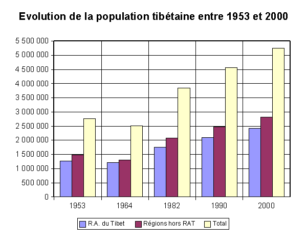 Evolution de la population tibétaine entre 1953 et 2000 Chiffres utilisés (resp. R.A. du Tibet, hors RAT) : 1953 : 1 273 964, 1 486 955 1964 : 1 208 663, 1 307 068 1982 : 1 764 600, 2 085 379 1990 : 2 096 346, 2 477 502 2000 : 2 427 168, 2 818 179 Sources : 1953 à 1990 : 1950—1990年藏族人口规模变动及其地区差异研究 2000 : Department of Population, Social, Science and Technology Statistics of the National Bureau of Statistics of China (国家统计局人口和社会科技统计司) and Department of Economic Development of the State Ethnic Affairs Commission of China (国家民族事务委员会经济发展司), eds. Tabulation on Nationalities of 2000 Population Census of China (《2000年人口普查中国民族人口资料》). 2 vols. Beijing: Nationalities Publishing House (民族出版社), 2003 (ISBN 7-105-05425-5)